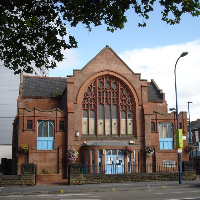 Three Buildings in a Row on Gregory Boulevard - (3) Hyson Green Community Centre